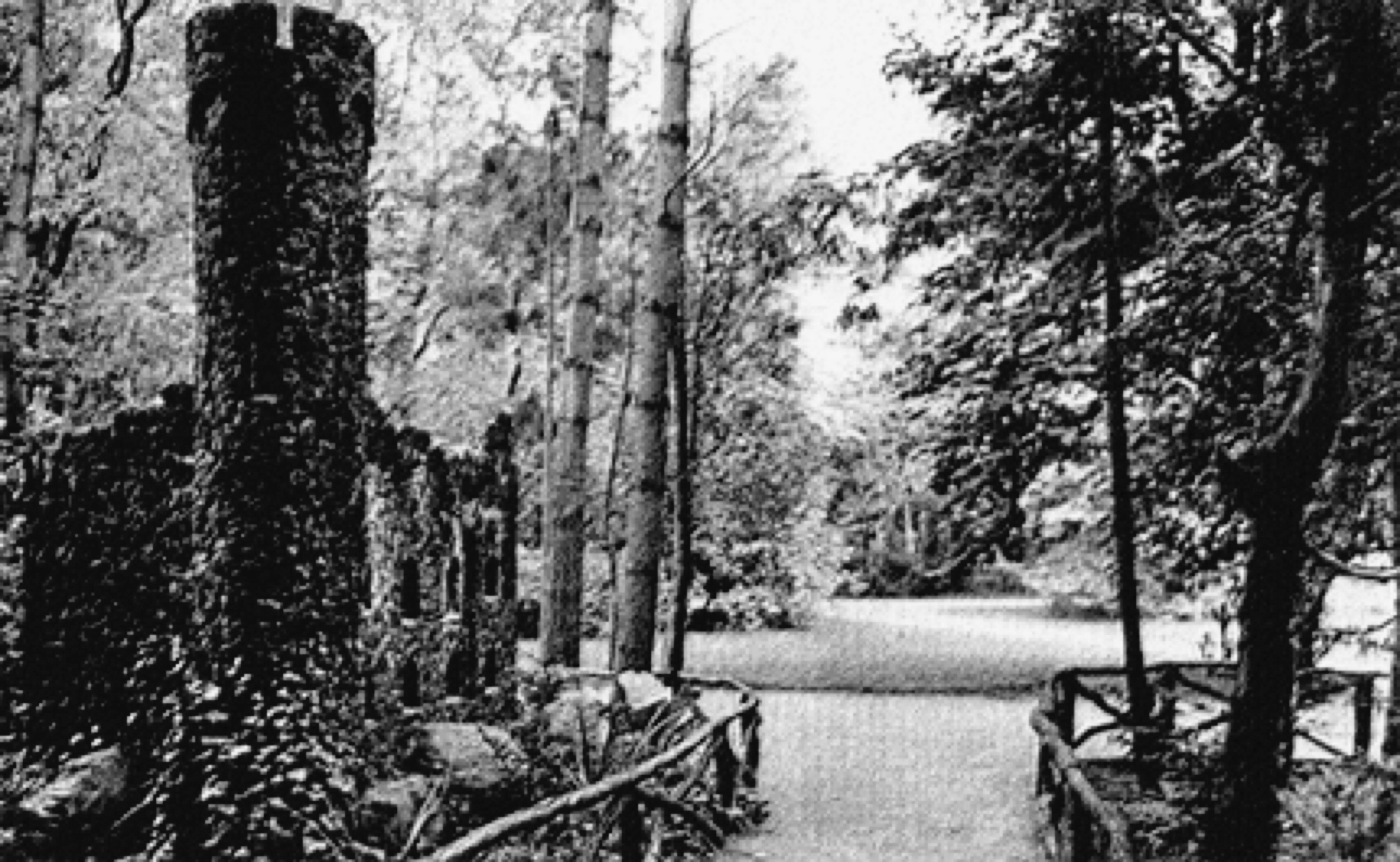 Private park of Hermann Killisch-Horn (1821–1886) in Pankow near Berlin, circa 1900. The park was created by Wilhelm Perring (1838–1906).